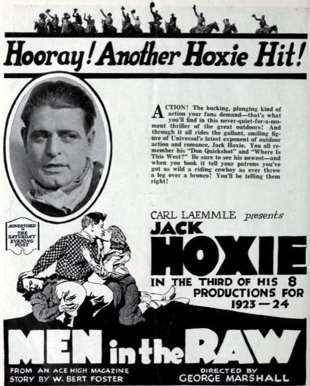 Advertisement for the American western film Men in the Raw (1923) with Jack Hoxie, on page 22 of the October 27, 1923 Universal Weekly.